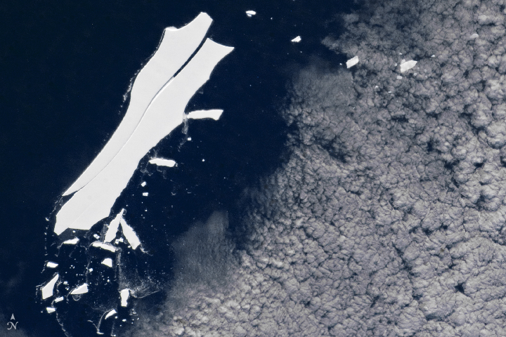 In March 2000, the largest iceberg ever recorded broke away from Antarctica’s Ross Ice Shelf. Now, after 18 years drifting with the currents and being battered by the wind and sea, a piece of this original berg could be nearing the end of its voyage. When iceberg B-15 first broke away, it measured about 160 nautical miles long and 20 nautical miles wide. That equates to an area of 3,200 square nautical miles, or about the size of Connecticut. B-15 has since fractured into numerous smaller bergs, and most have melted away. Just four pieces remain that meet the minimum size requirement—at least 20 square nautical miles—to be tracked National Ice Center. When astronauts aboard the International Space Station shot this photograph on May 22, 2018, B-15Z measured 10 nautical miles long and 5 nautical miles wide. That’s still well within the trackable size. But the iceberg may not be tracked much longer if it splinters into smaller pieces. A large fracture is visible along the center of the berg, and smaller pieces are splintering off from the edges. Melting and breakup would not be surprising, given the berg’s long journey and northerly location. A previous image showed B-15Z farther south in October 2017, after it had ridden the coastal countercurrent about three-quarters of the way around Antarctica bringing it to the Southern Ocean off the tip of the Antarctic Peninsula. Currents prevented the berg from continuing through the Drake Passage; instead, B-15Z cruised north into the southern Atlantic Ocean. When the May 2018 photograph was acquired, the berg was about 150 nautical miles northwest of the South Georgia islands. Icebergs that make it this far have been known to rapidly melt and end their life cycles here.